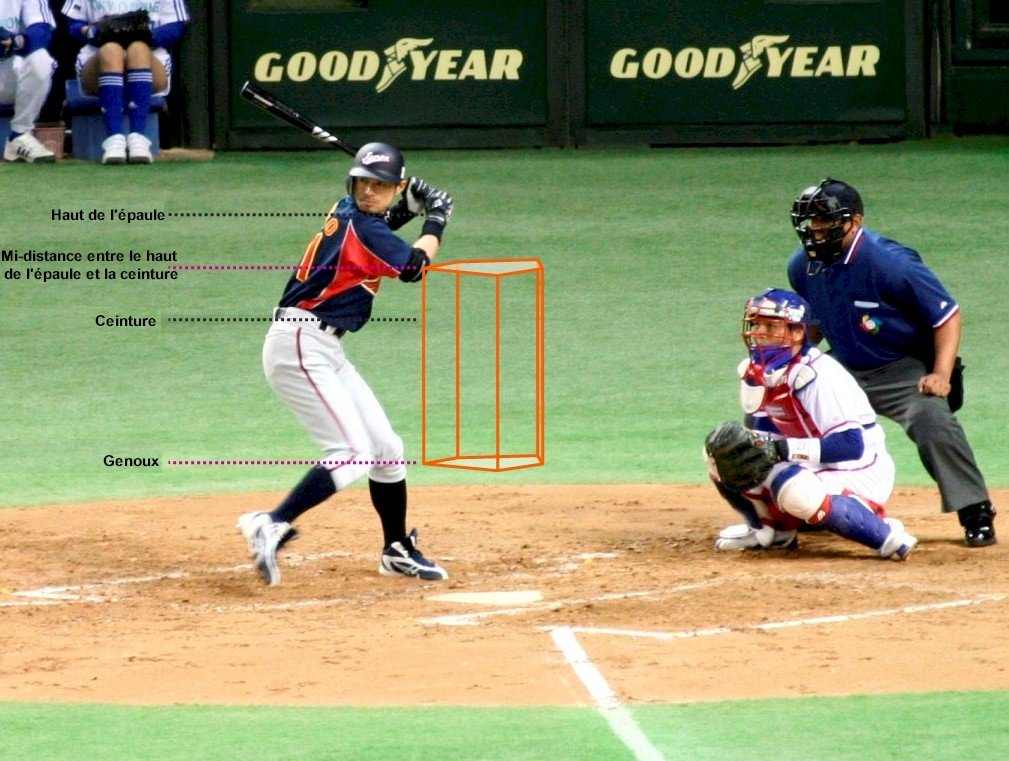 French explanation of the baseball strike zone